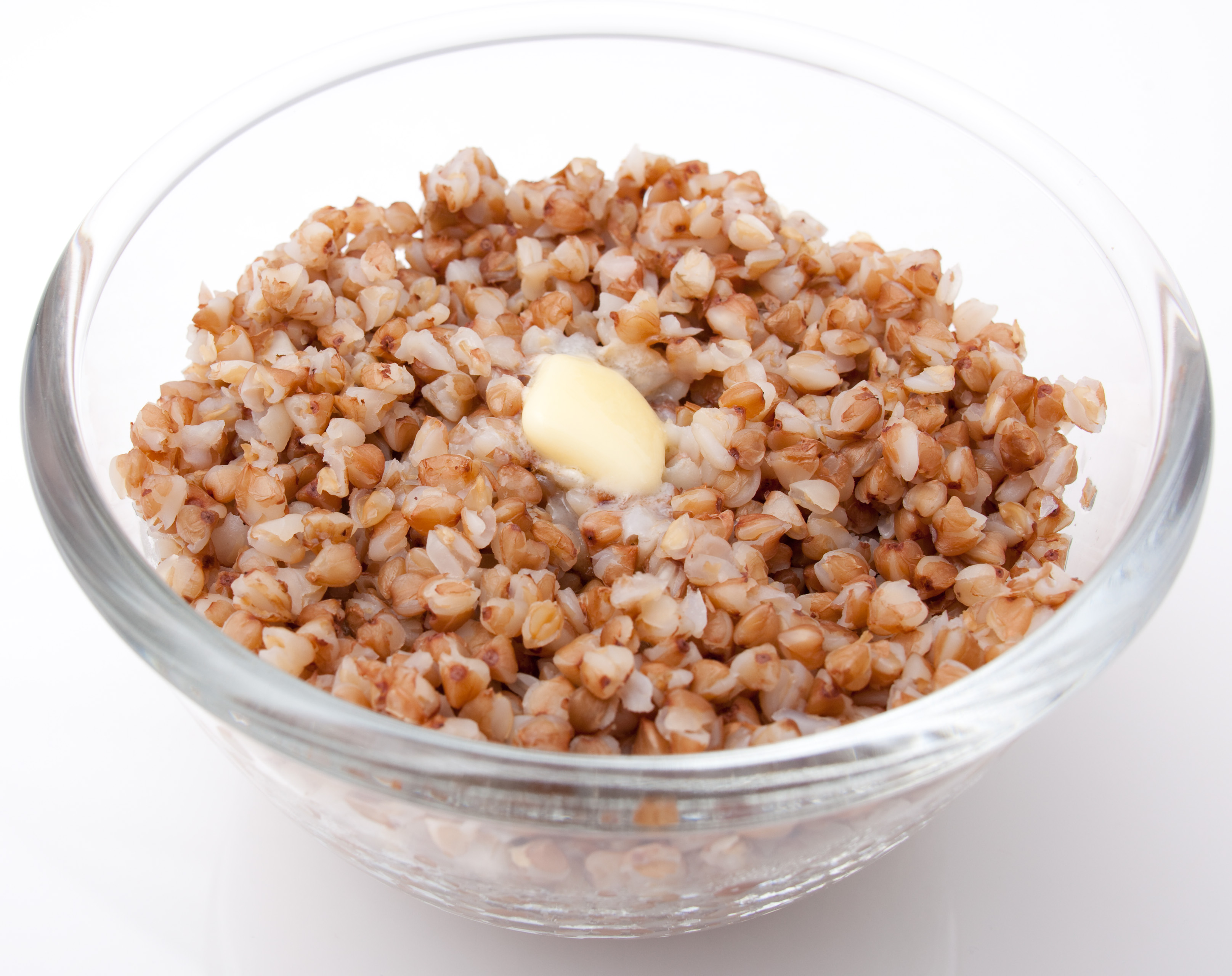 Buckwheat kasha with butter